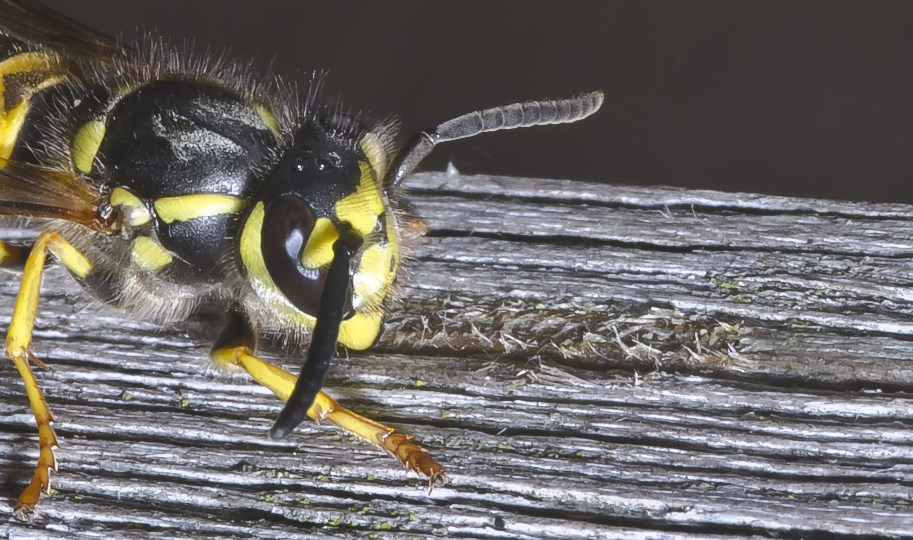 German wasp rasping wood for building its nest